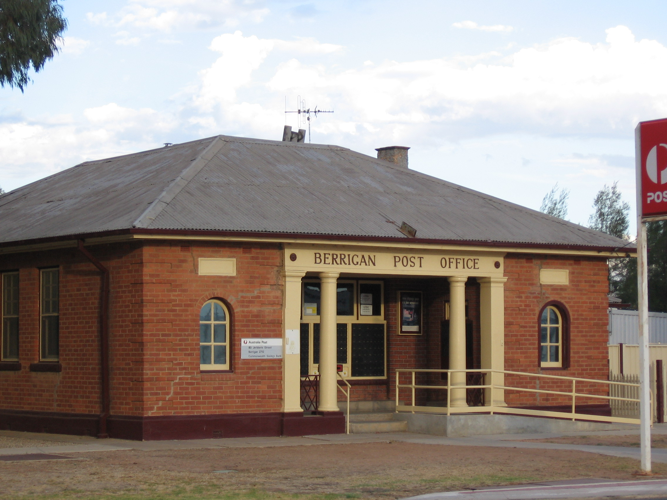 Post Office in Berrigan, New South Wales